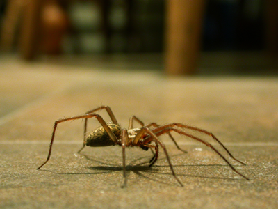 Image of a Large house spider in a kitchen (York)